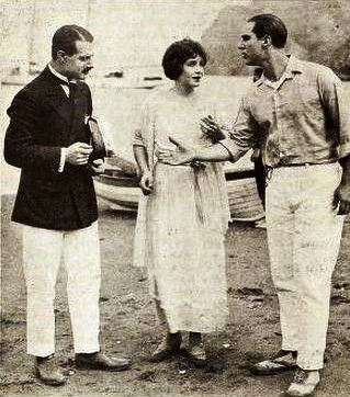 Still from the American film Conquering the Woman (1922) with Florence Vidor, on page 194 of the December 23, 1922 Exhibitor's Trade Review.